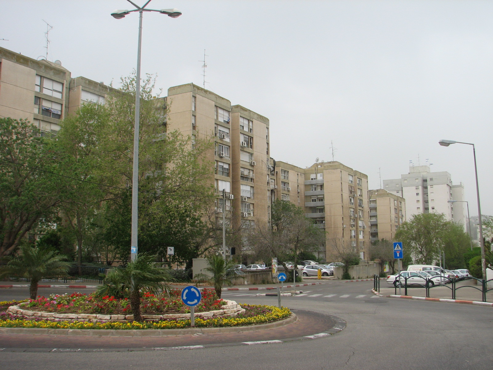 Northern Navé Sha'anan, Haifa typical streetscape.